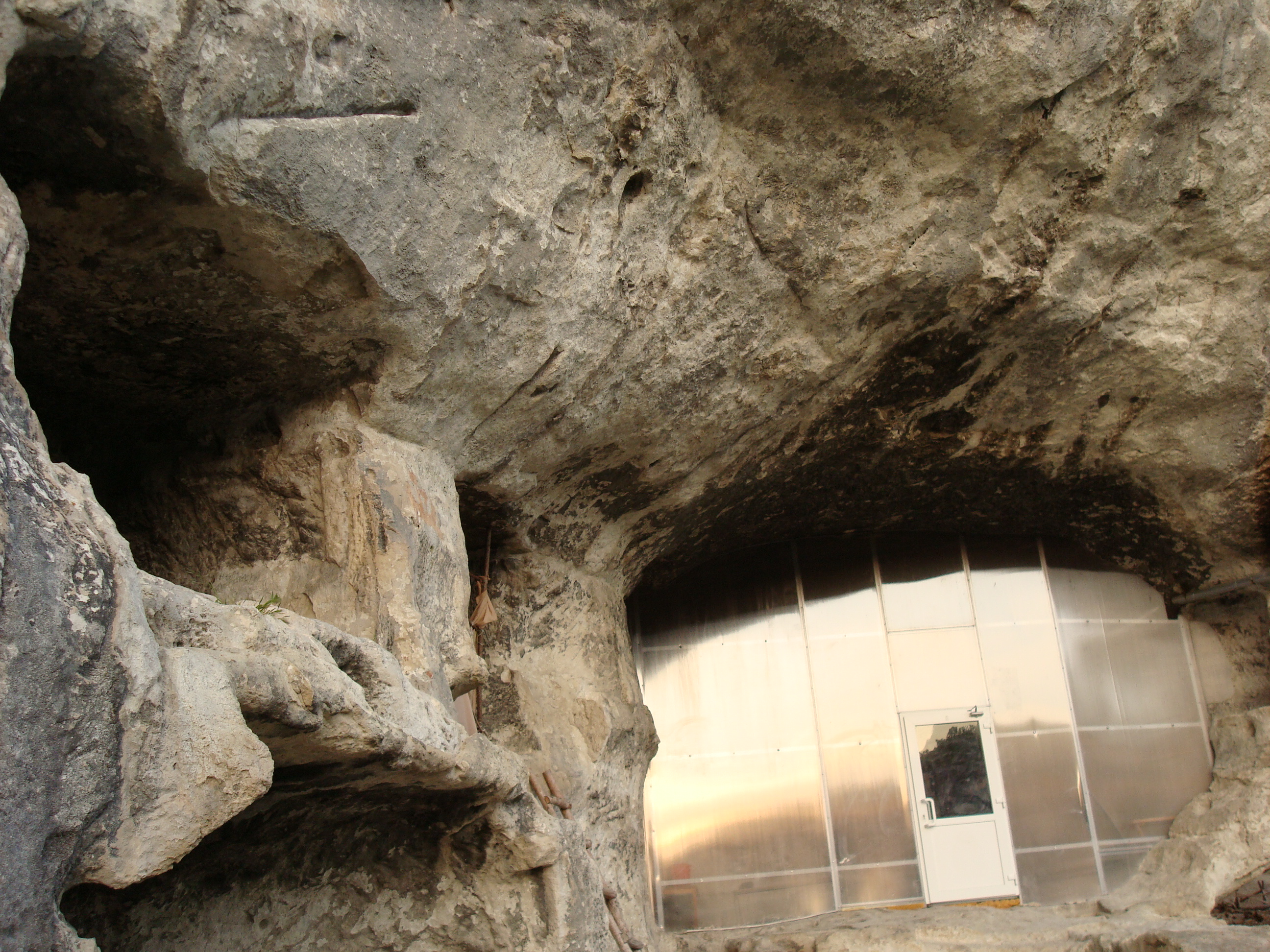 Chelter-Koba church, Crimea